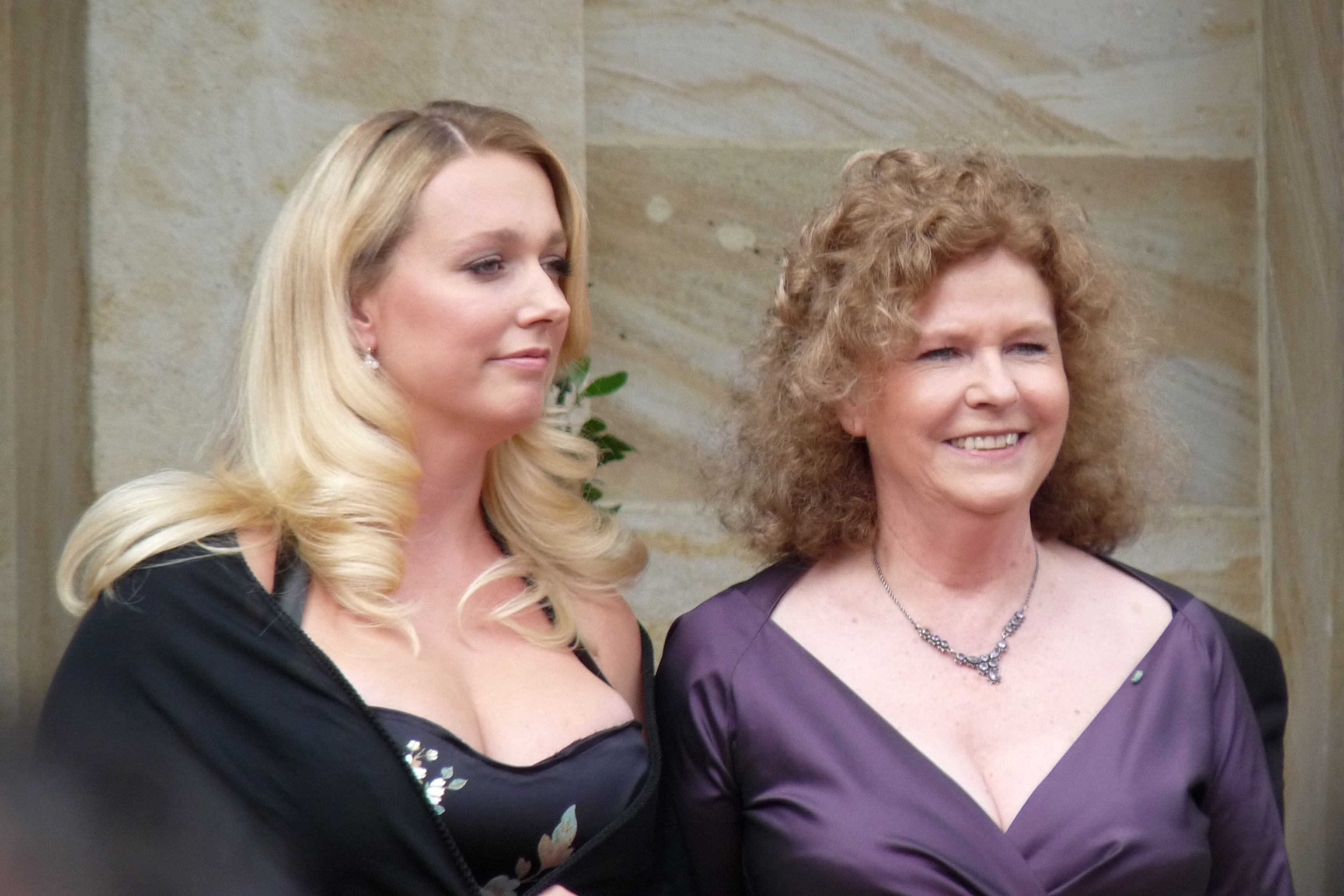 Katharina and Eva Wagner, great granddaughters of Richard Wagner, at the premiere of the Bayreuth Festival 2009.